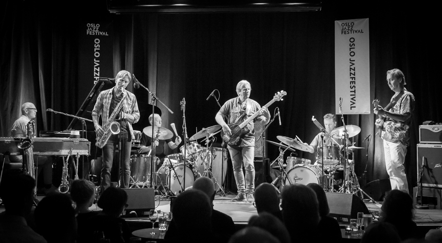 Cutting Edge at the stage of Nasjonal Jazzscene Victoria. The concert was part of the Oslo Jazz Festival in Norway and took place on 17. August 2016. Lineup: Rune Klakegg (keyboard) Morten Halle (tenor saxophone) Knut Værnes (guitar) Edvard Askeland (bass guitar) Frank Jakobsen (drums) Stein Inge Brækhus (drums)